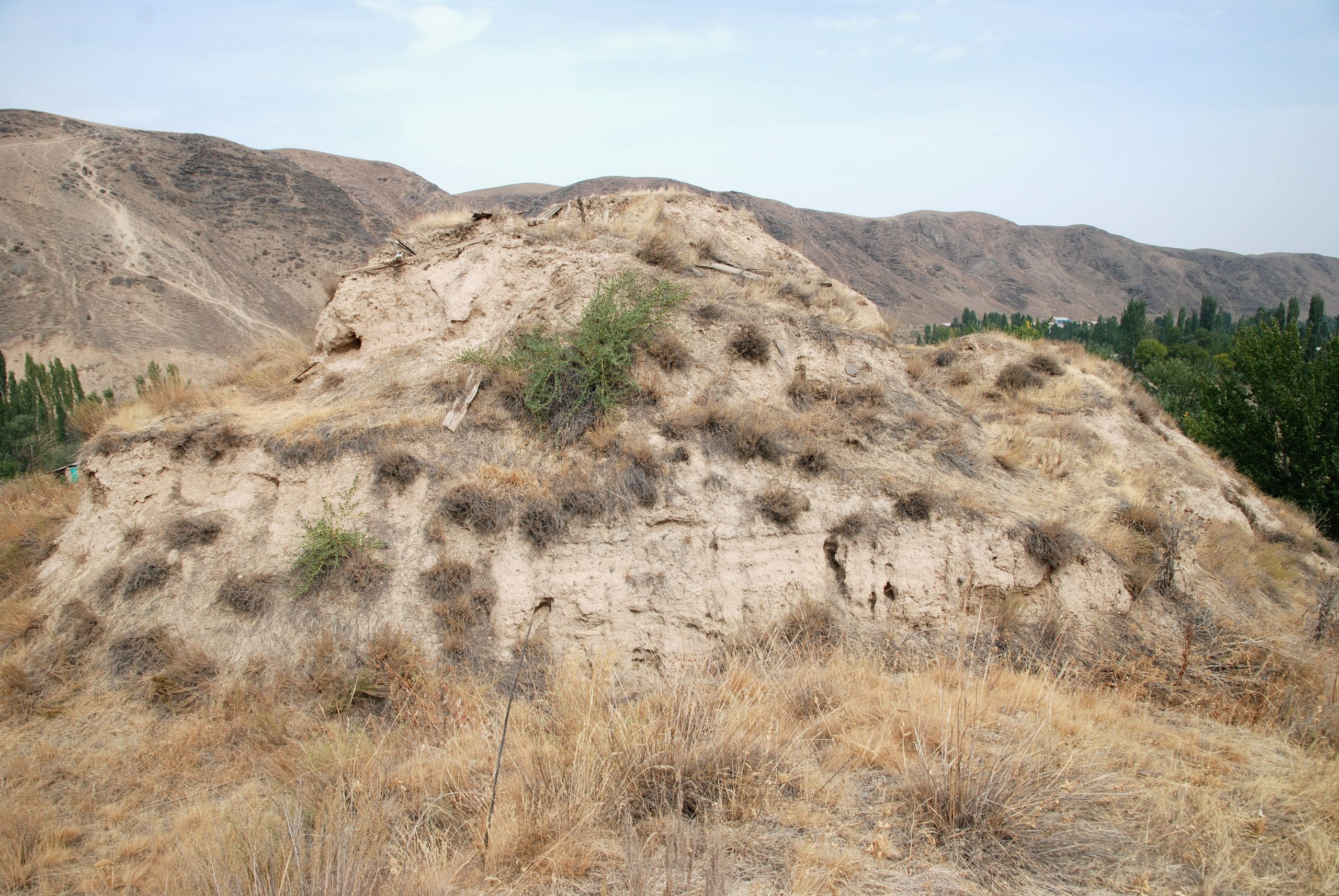 Jarkutan, Sughd province, Chilhujra